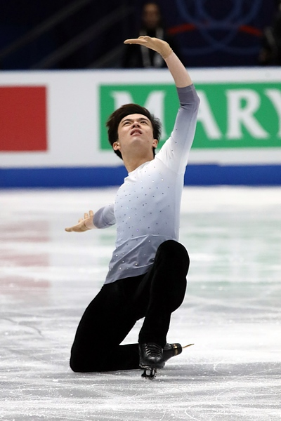 Photos – World Championships 2018 – (Men Chih-I TSAO TPE – 30th Place)